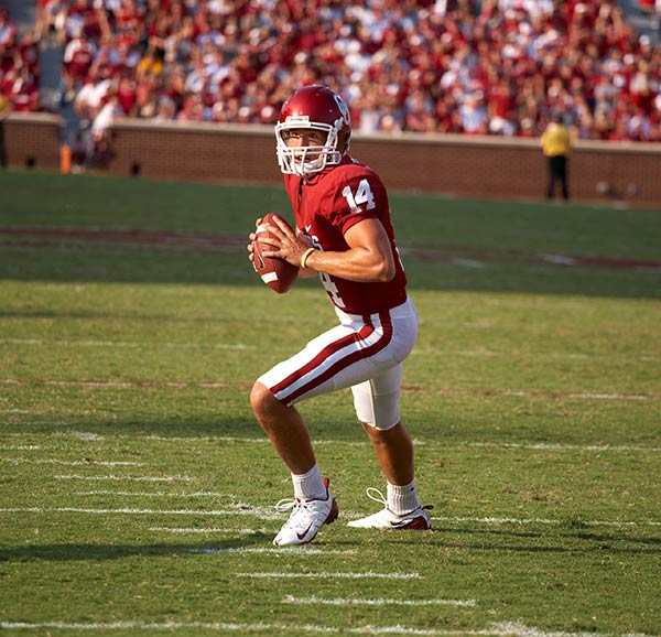 Sam Bradford, quarterback for the Oklahoma Sooners football team, prepares to pass.